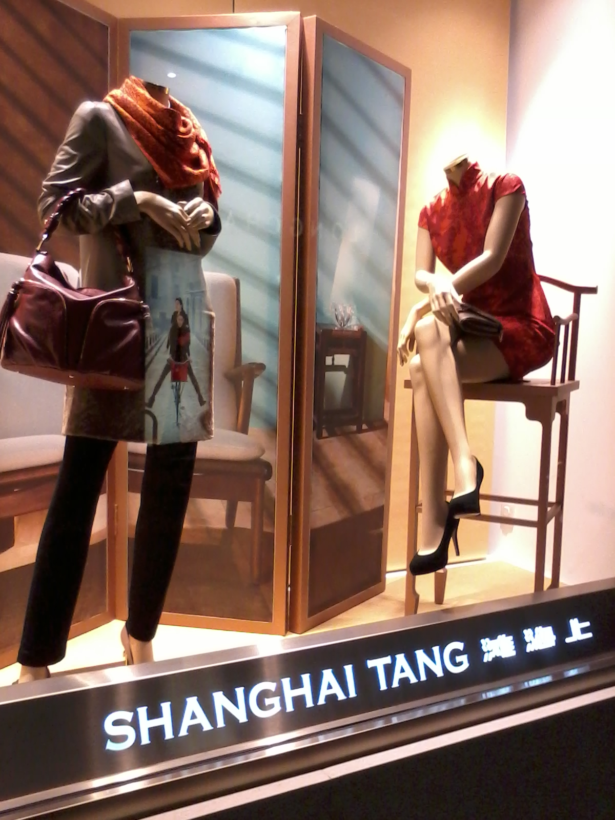 上海灘服裝店 Shanghai Tang, Shop at No.1 Duddell Street, Central, Hong Kong